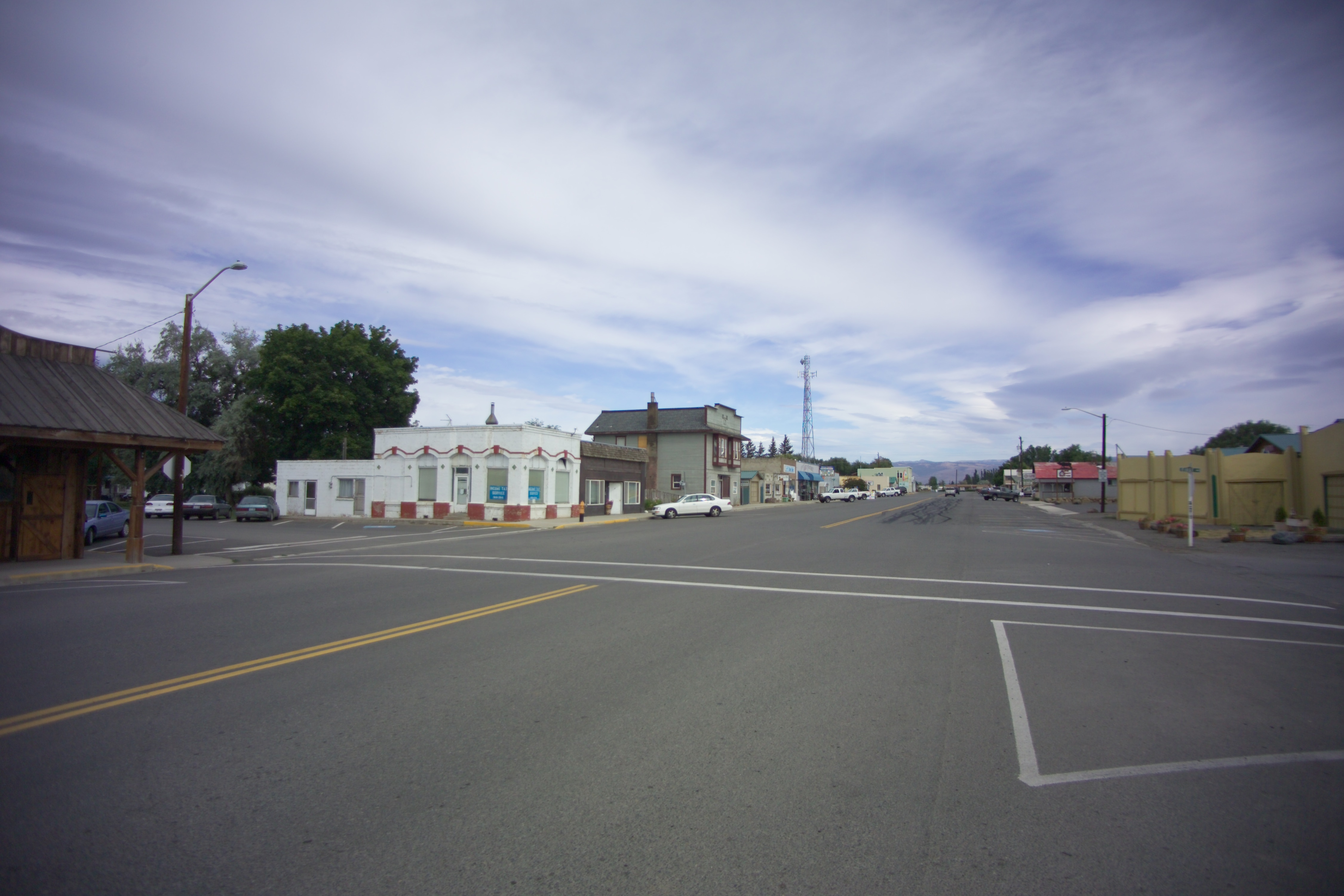 Kittitas, Washington.